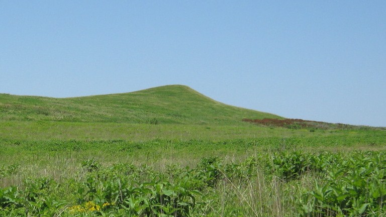 A photograph of the mound itself, at the Spirit Mound Historic Prairie in Clay County, South Dakota (just north of Vermillion).